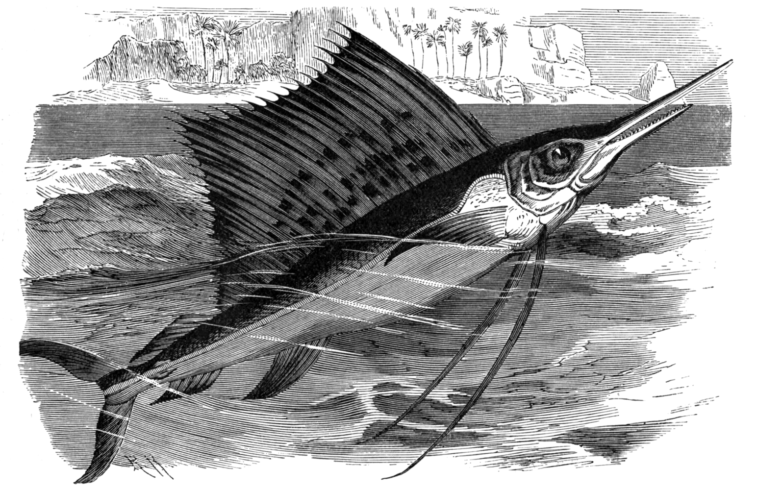 Istiophorus platypterus